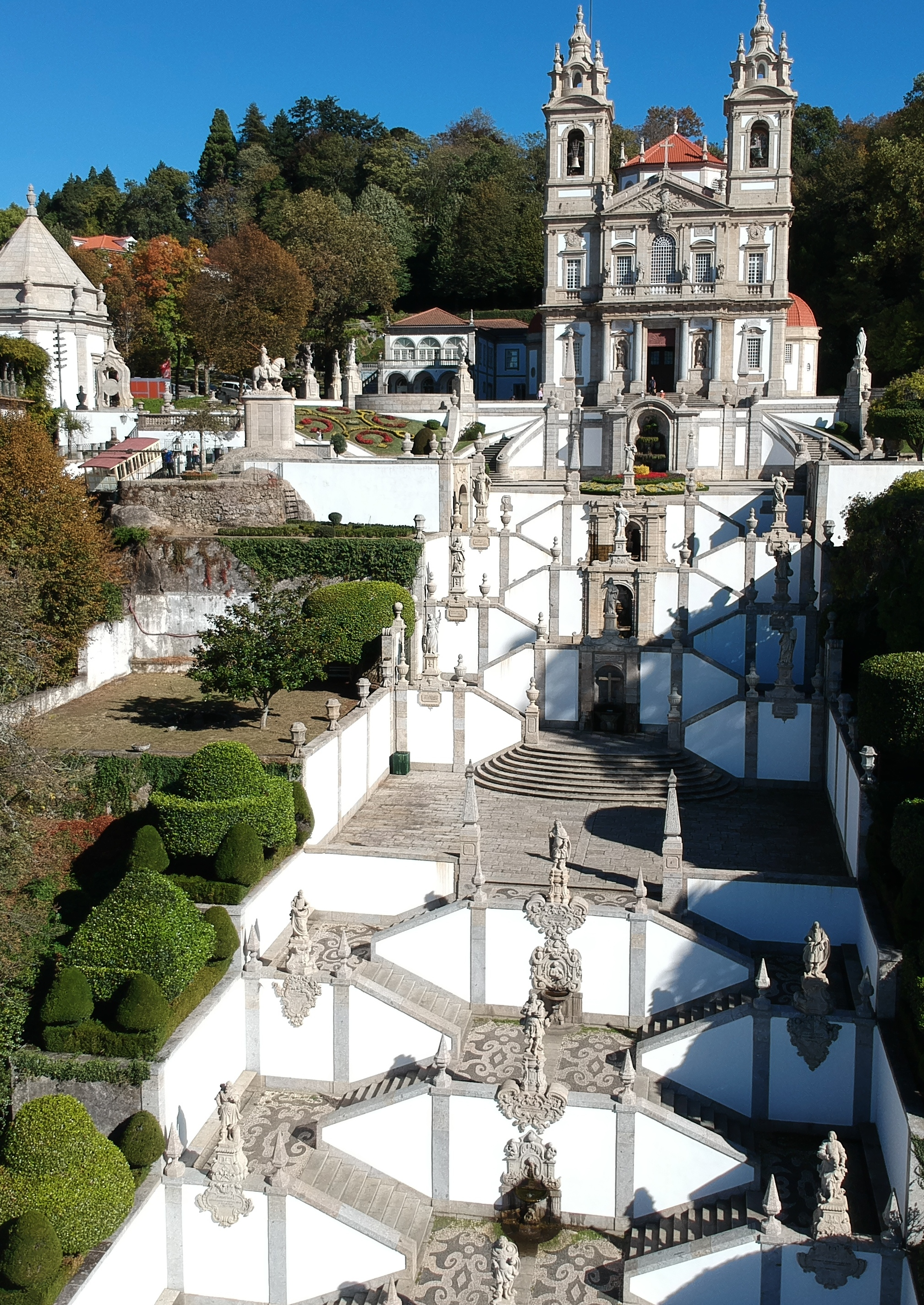 Aerial photograph of Bom Jesus, Braga Portugal